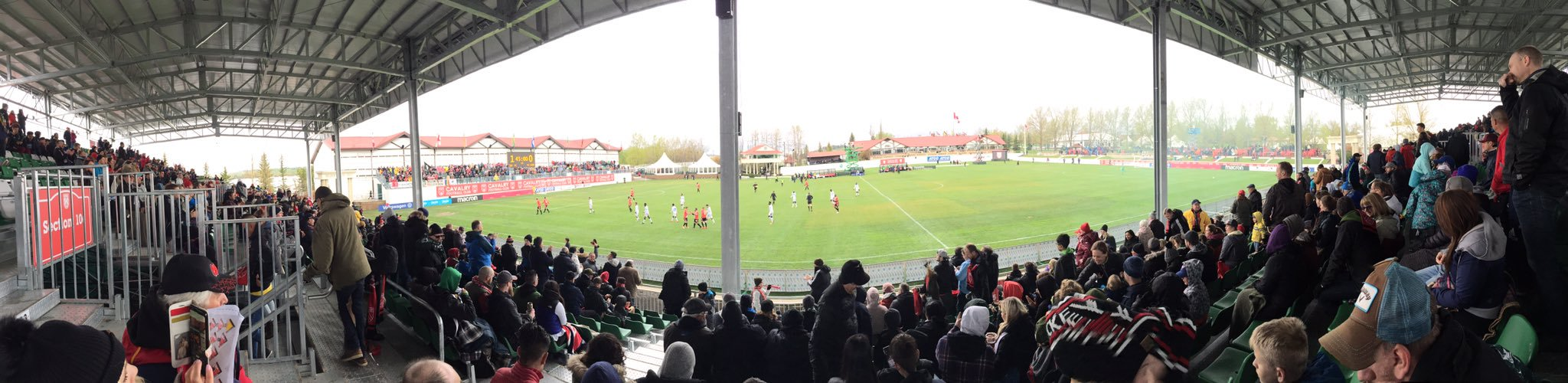 View from Section 105 at ATCO Field, May 18, 2019. Cavalry vs FC Edmonton